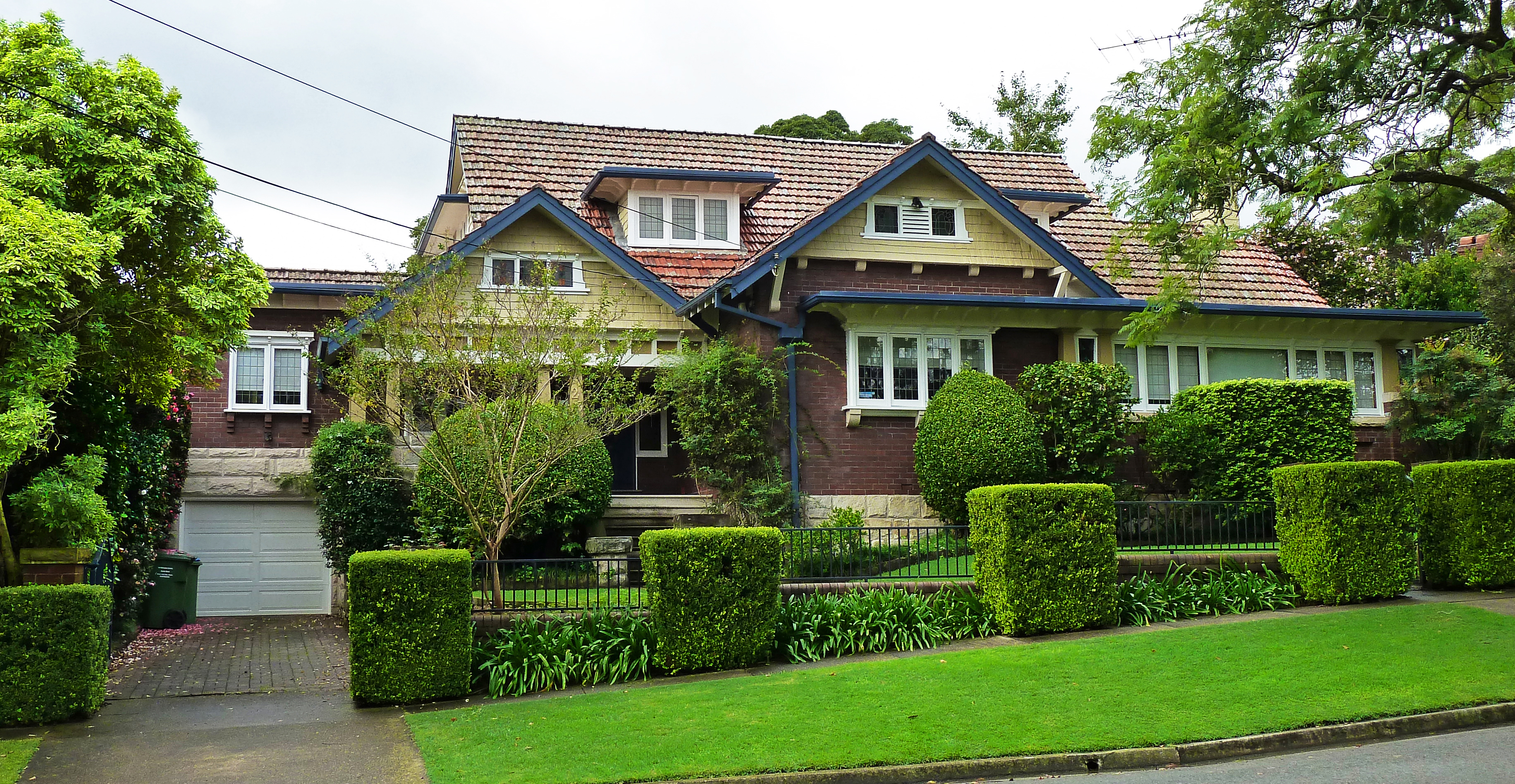 Arts and crafts home, 23 Waimea Road, Lindfield, New South Wales, Australia.